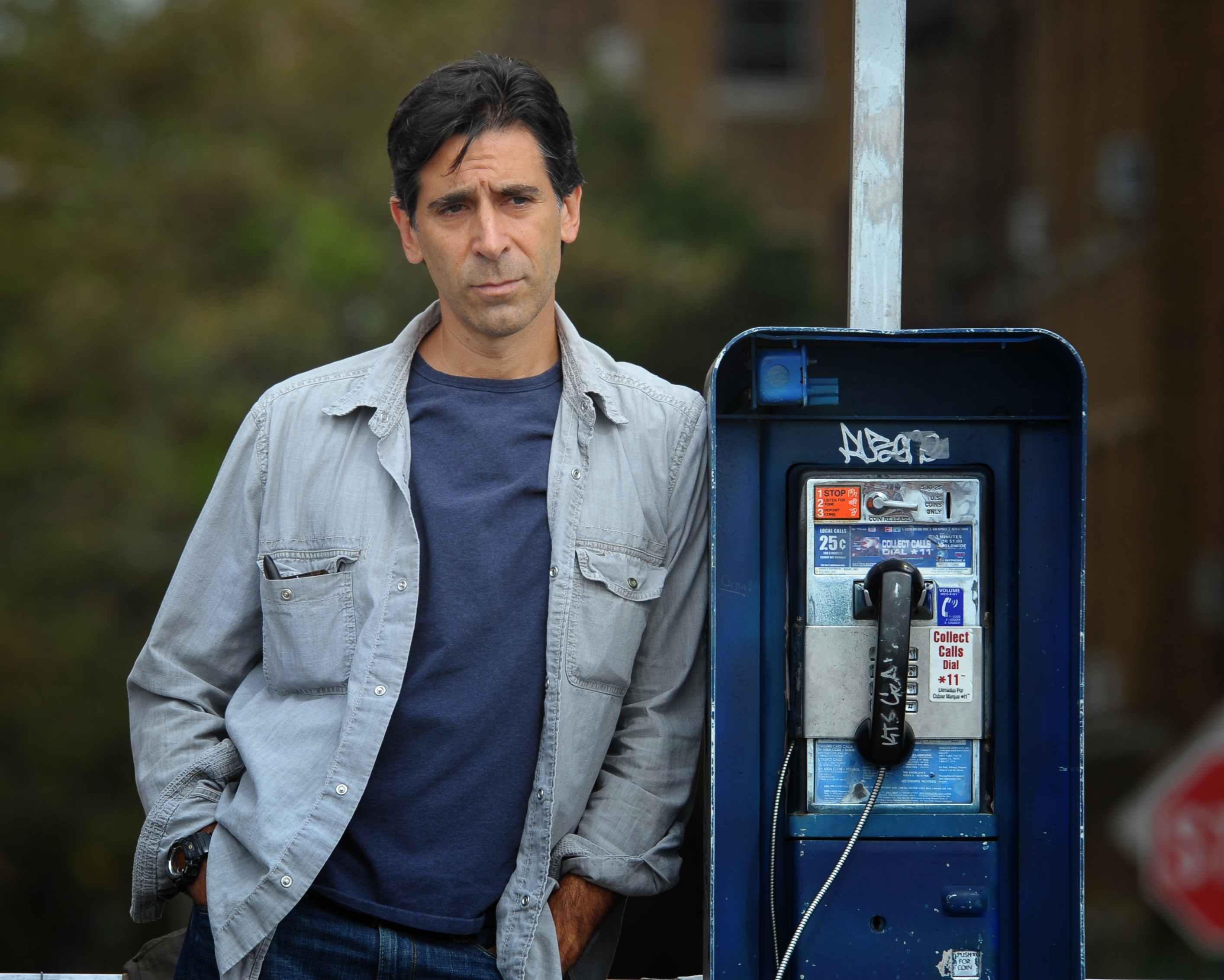 A photograph of Oscar Nominated screenwriter Alessandro Camon (movie: "The Messenger" )